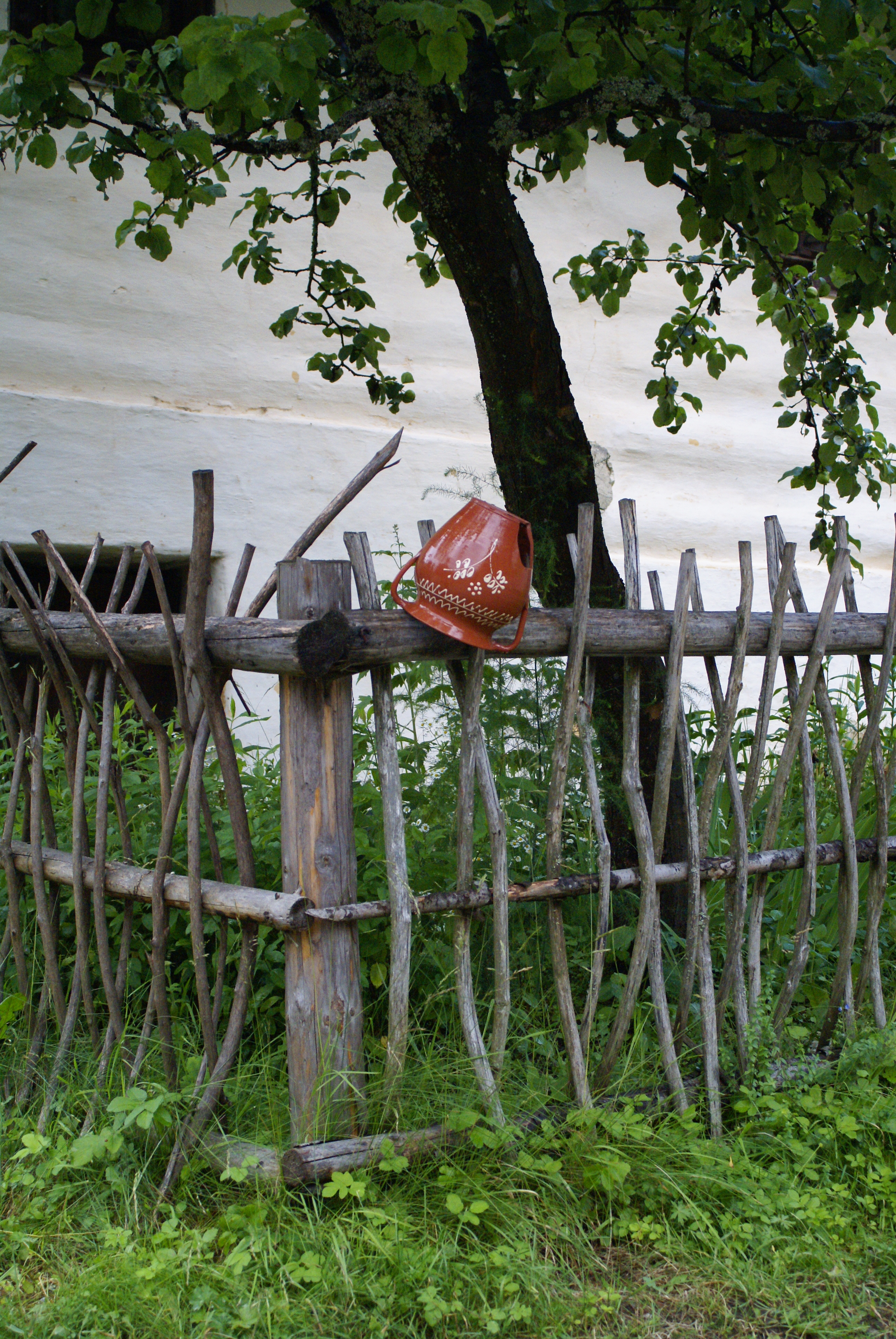 Open air museum of typical slovakian old Orava village, Zuberec, West Tatras, Slovak Republic